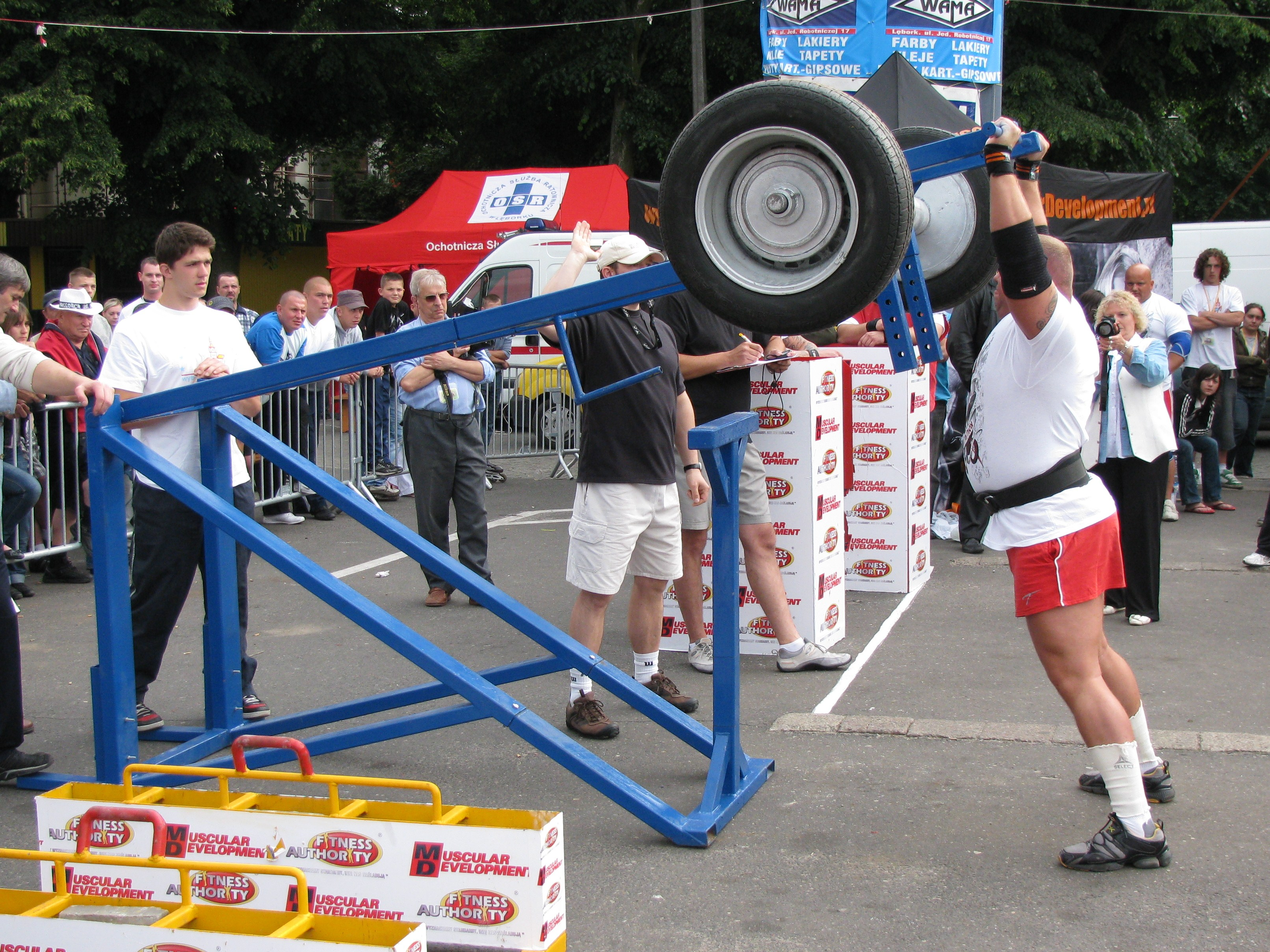 Strongman event: Viking Press